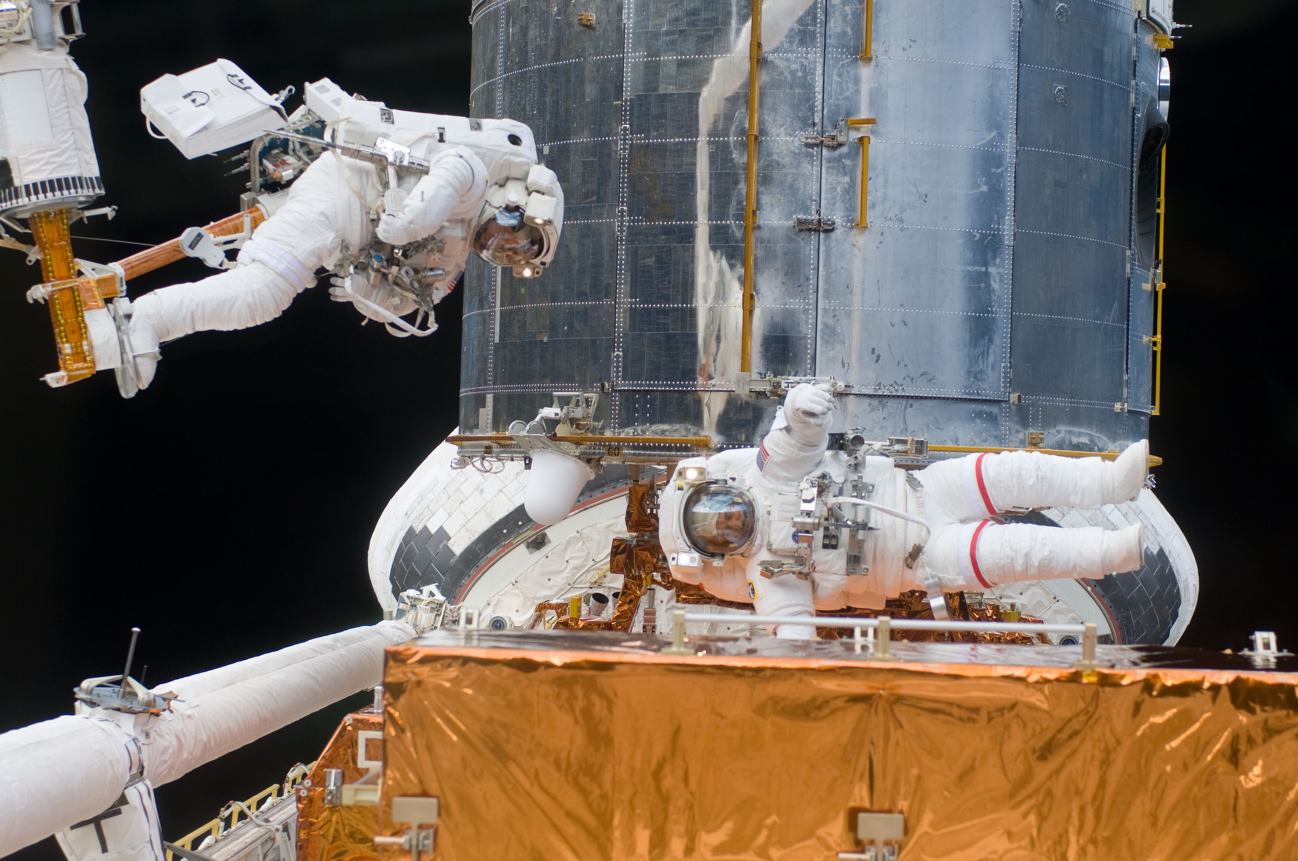 Astronauts Andrew Feustel (left) and John Grunsfeld, both STS-125 mission specialists, participate in the mission's third session of extravehicular activity (EVA) as work continues to refurbish and upgrade the Hubble Space Telescope. During the six-hour, 36-minute spacewalk, Grunsfeld and Feustel removed the Corrective Optics Space Telescope Axial Replacement and installed in its place the new Cosmic Origins Spectrograph. They also completed the Advanced Camera for Surveys electronic card replacement work, and completed part 2 of the ACS repair, installing a new electronics box and cable.